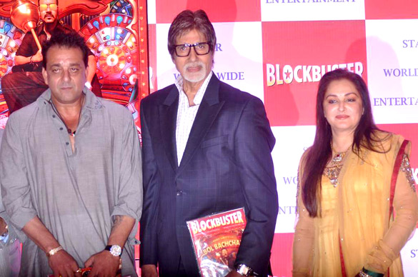 Sanjay Dutt, Amitabh Bachchan, Jaya Prada at the launch of T P Aggarwal's trade magazine 'Blockbuster'